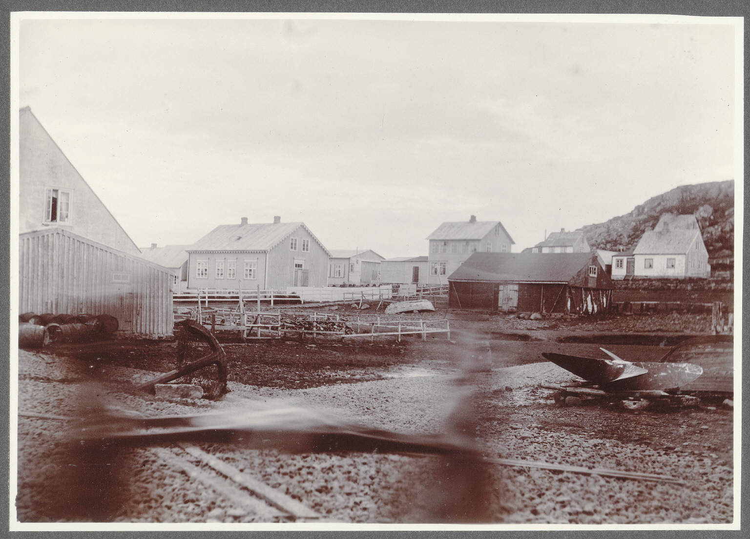 Collection: Icelandic and Faroese Photographs of Frederick W.W. Howell, Cornell University Library Title: Hafnarfjörður. Date: ca. 1900 Place: Hafnarfjörður (Iceland) Medium: collodion print Repository: Fiske Icelandic Collection, Rare & Manuscript Collections, Cornell University Library Accession: 1923.1.38 URL: Persistent URI: There are no known U.S. copyright restrictions on this image. The digital file is owned by the Cornell Univeristy Library which is making it freely available with the request that, when possible, the Library be credited as its source. We had some help with the geocoding from Web Services by Yahoo!